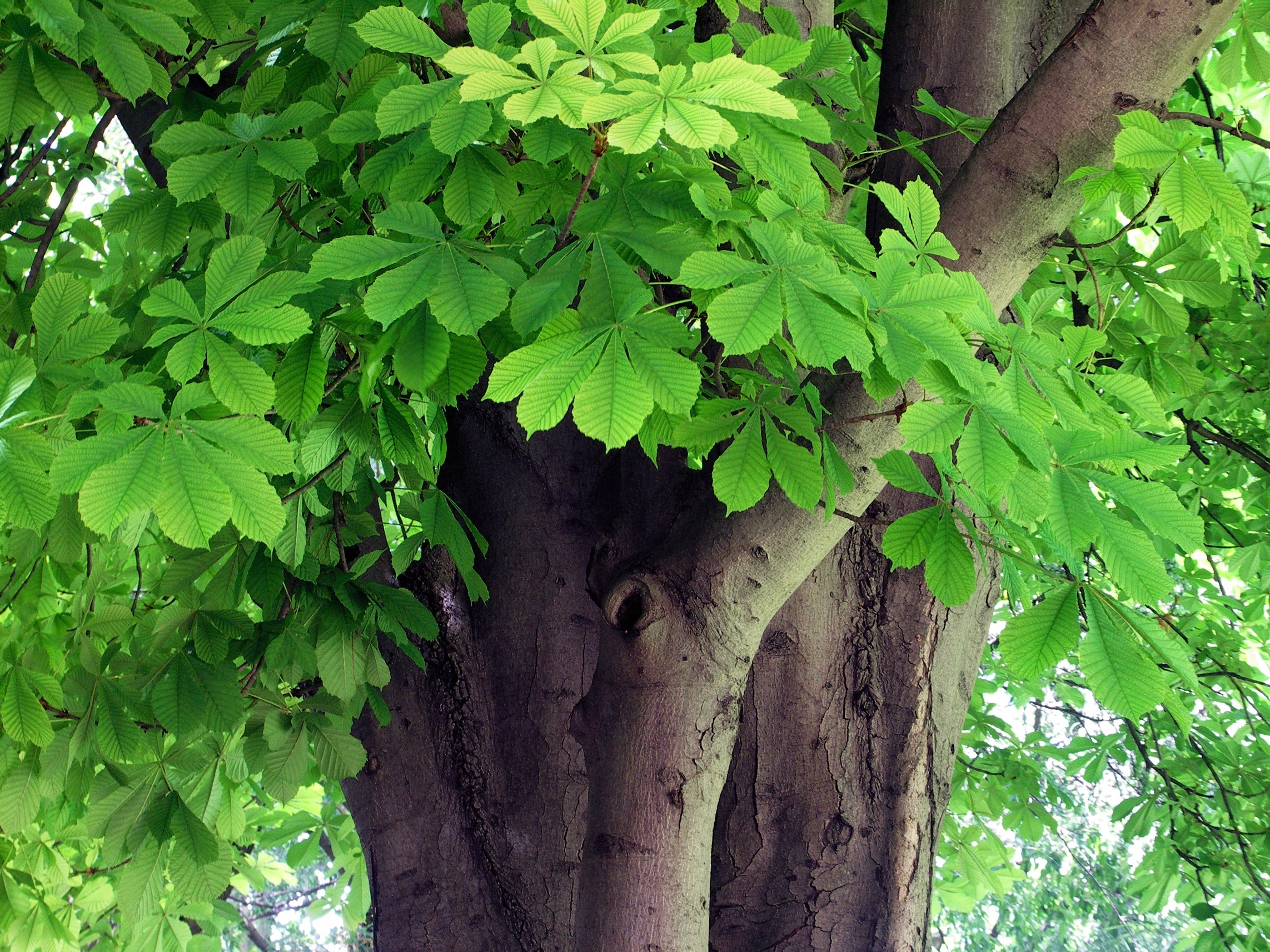 Leaves and trunk of Horse chestnut. Estrela Garden, Lisbon